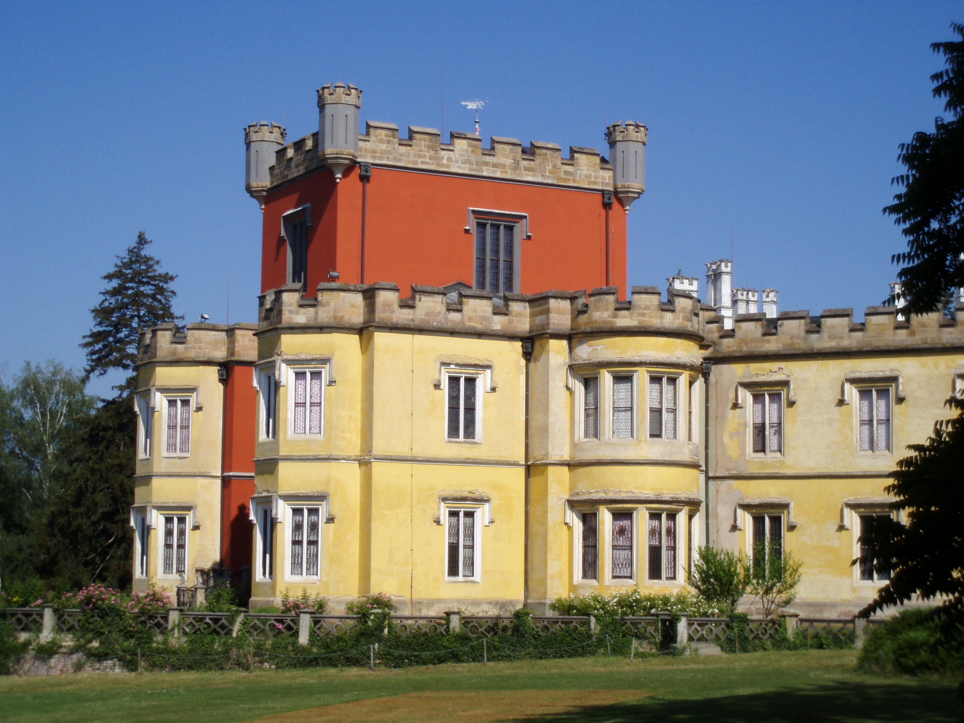 Castle Hradek u Nechanic (CZ)